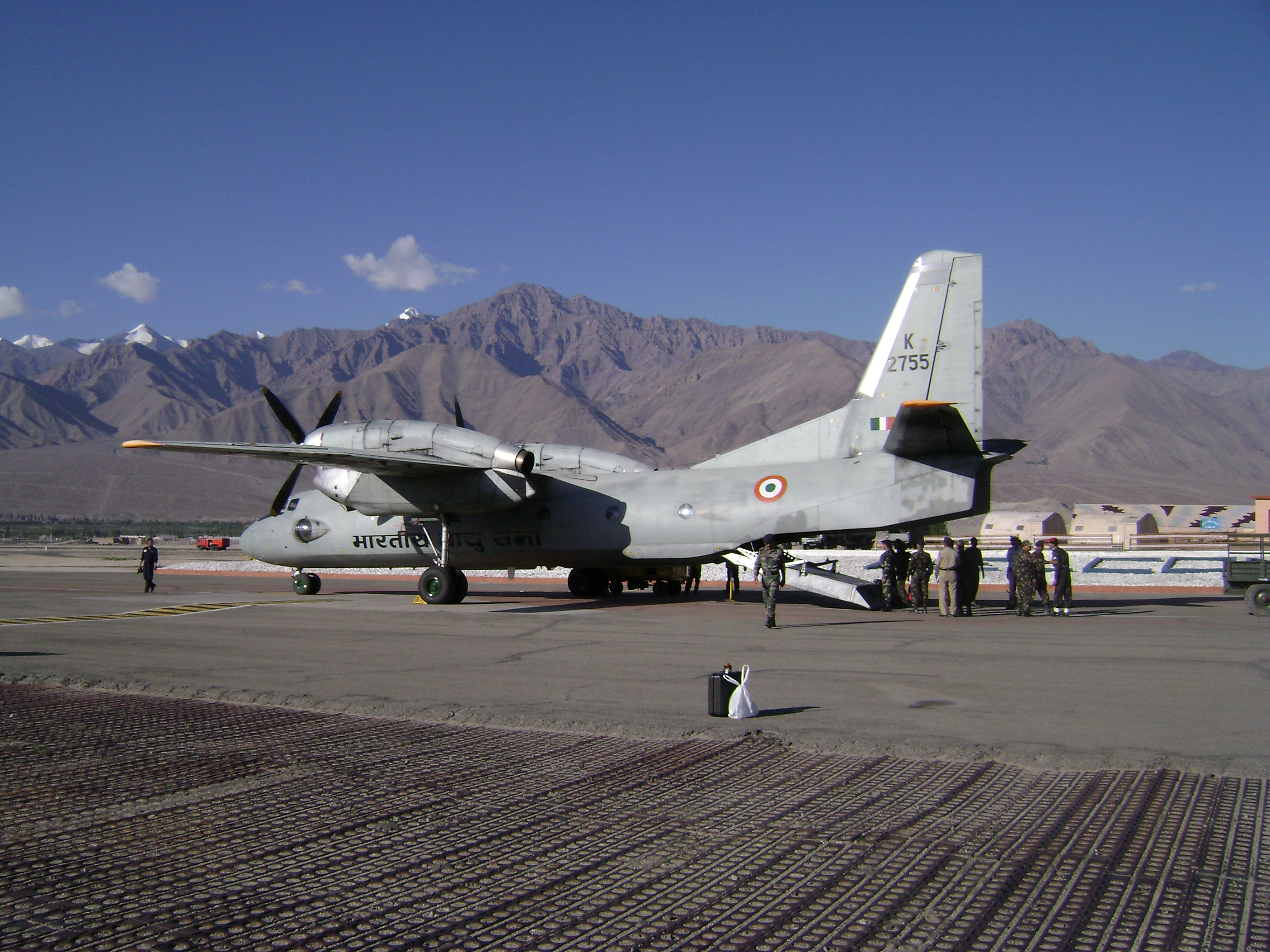 An 32 in Leh Airbase